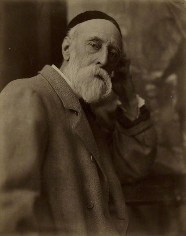 Photograph of George Frederic Watts by Henry Herschel Hay Cameron